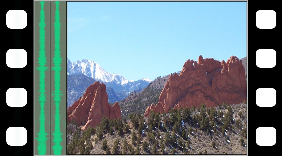 .Illustration of anamorphic widescreen lens. With an anamorphic lens, the picture is optically "squeezed" to cover the entire film frame, resulting in a better picture quality. When projecting the film, the projector must use a lens of opposite anamorphic power to "unsqueeze" the image back to its original proportions.